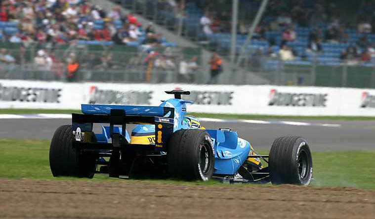 F1 racing at Silverstone, UK in 2005 season15 Renault JP